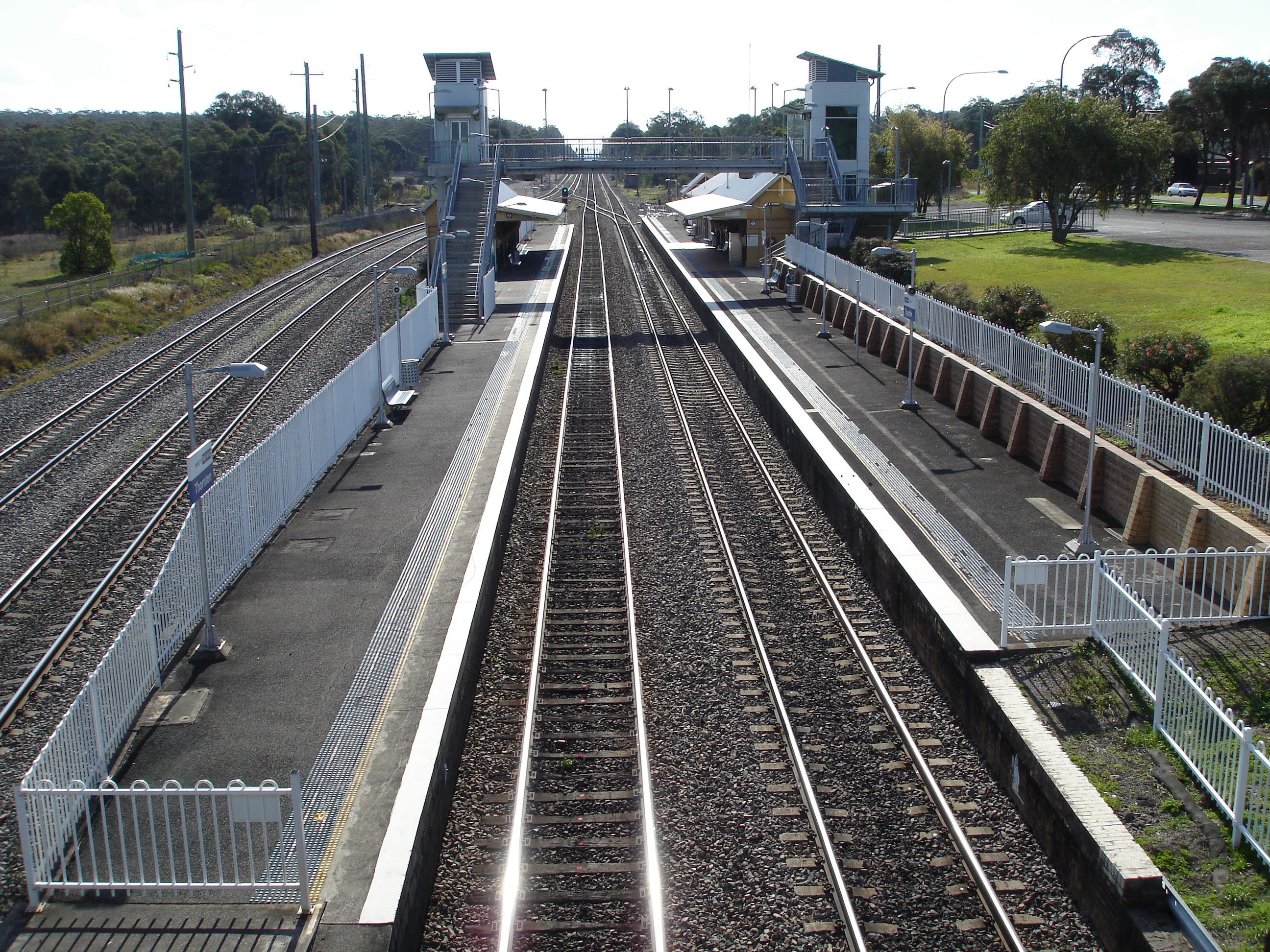 Thornton station taken by MrTwig